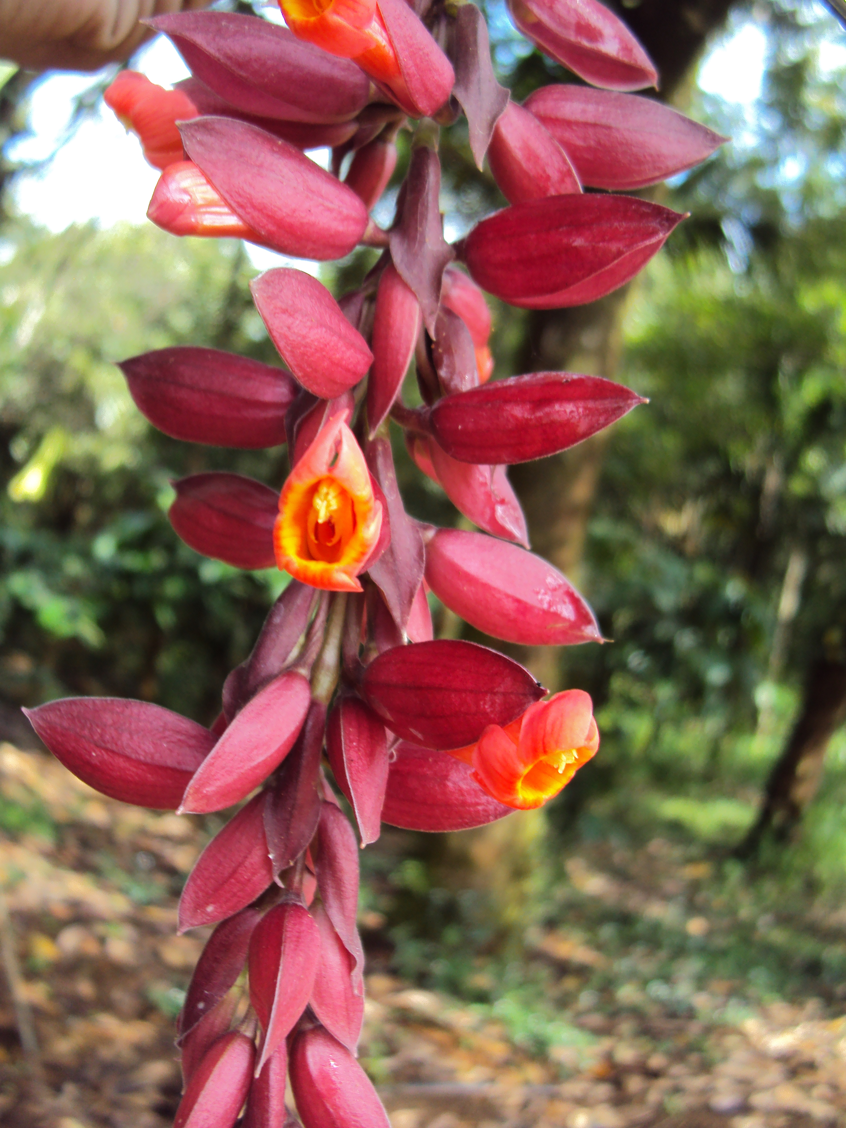 Thunbergia coccinea - Scarlet Clock Vine